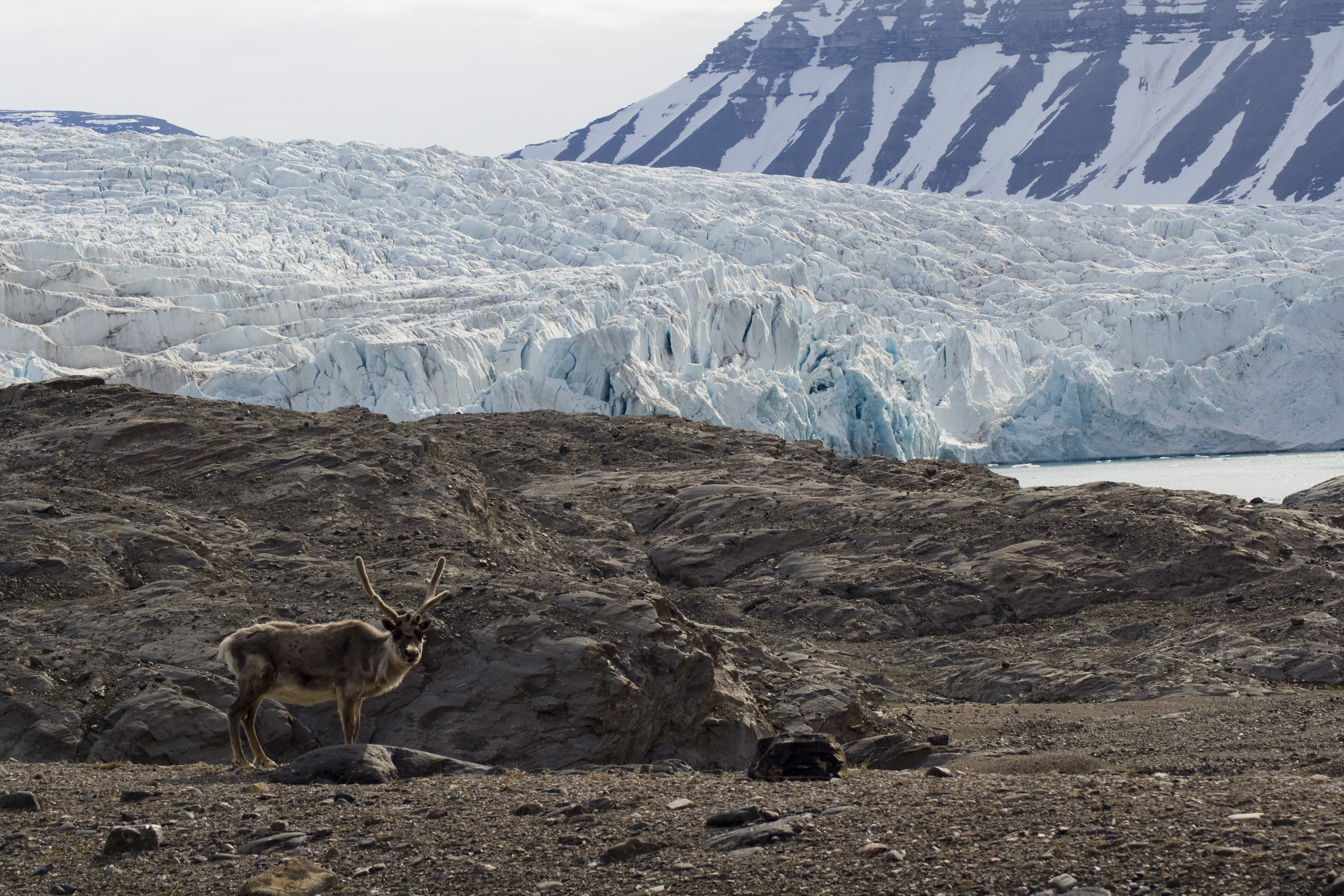 Nordenskiöldbreen glacier, Svalbard